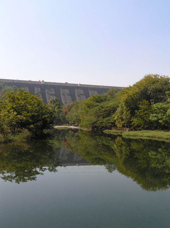 The dam was constructed for the supply of water to the left and right bank pravara canals constructed for the protection from famine of 2,29,000 acres in the Ahmednagar collectorats and named after Mr.Arthur Hill (C.I.E., F.C.H., M.I.C.E.), the chief engineer for irrigation and secretary to government, Bombay, in recognition of the valuable services rendered by him to irrigation in the Bombay Presidency. Catchment area - 47 square miles Capacity of the dam - 10,086 milion cubic feet The dam is 270 feet high above the river bed and 278 feet above lowest foundation. It's construction was commenced in 1910 and completed in 1926 at a cost of Rs.84,14,188.